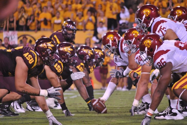 USC vs ASU 2011 on 9/24 at Sun Devil Stadium in Tempe, Ariz.